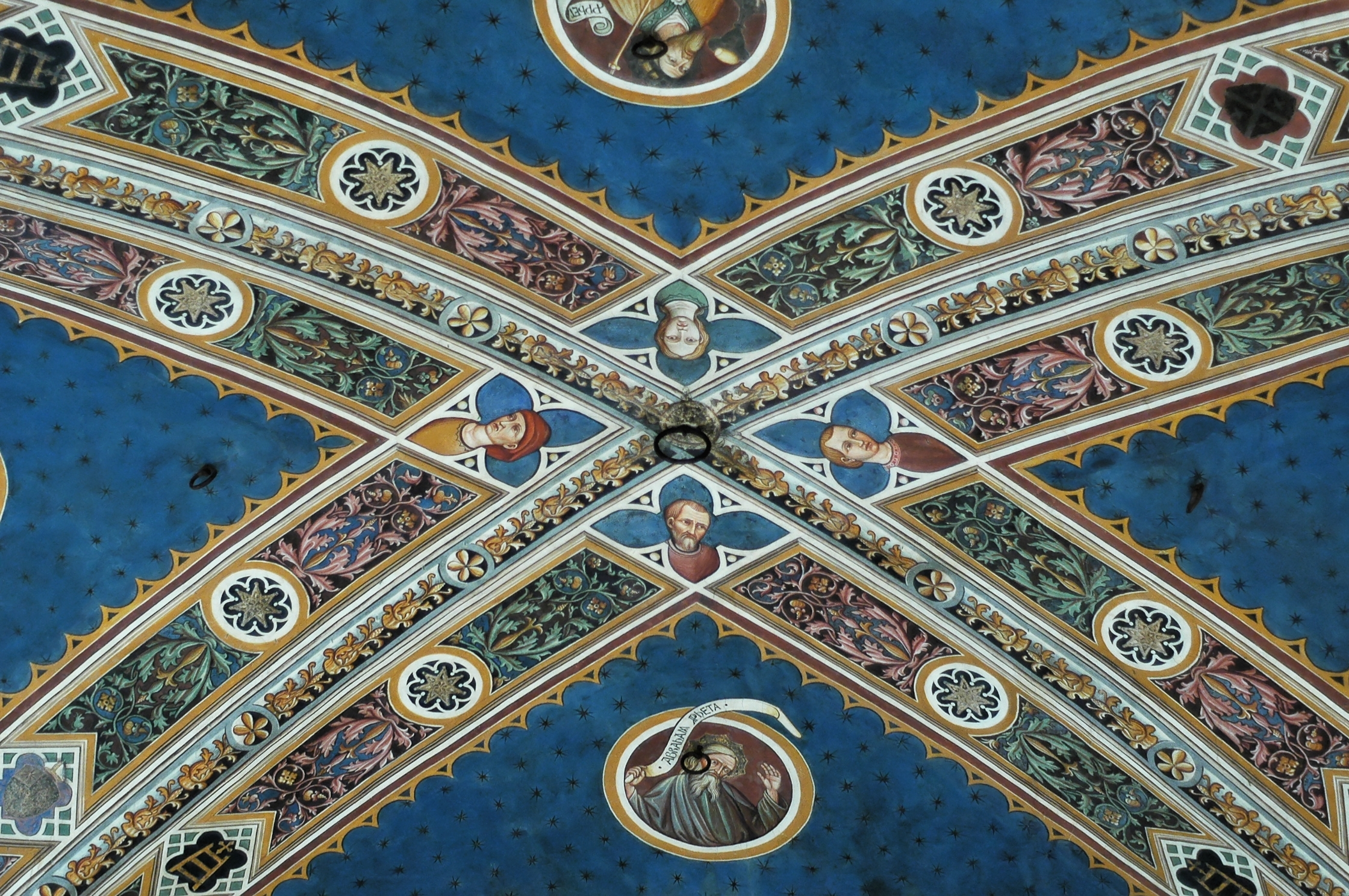 Ceiling of the Sala del Pellegrinaio (hall of the pilgrim), fresco by Domenico di Bartolo. Hospital Santa Maria della Scala, Siena.